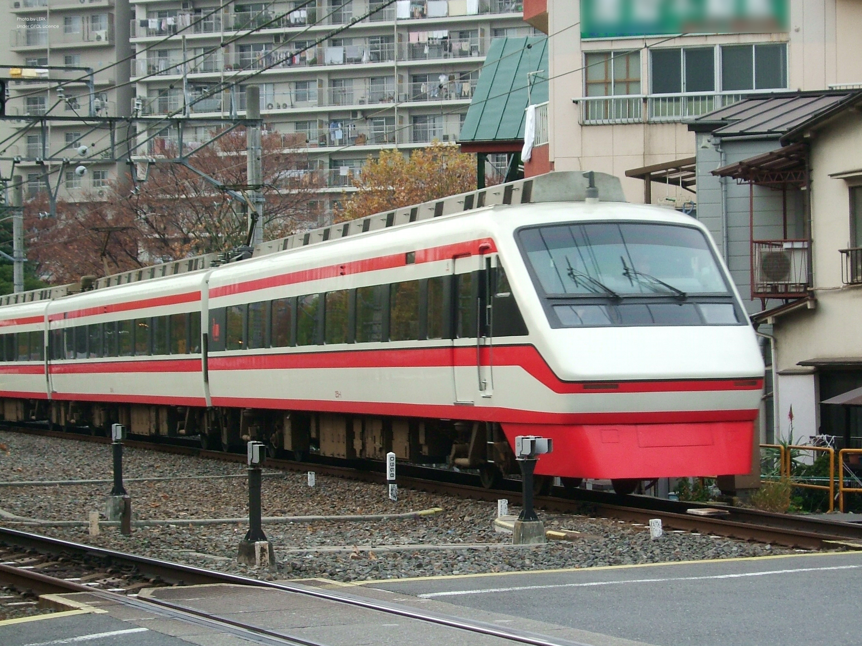 Tobu Railway 250 series